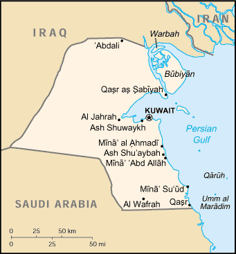 map of Kuwait (CIA)